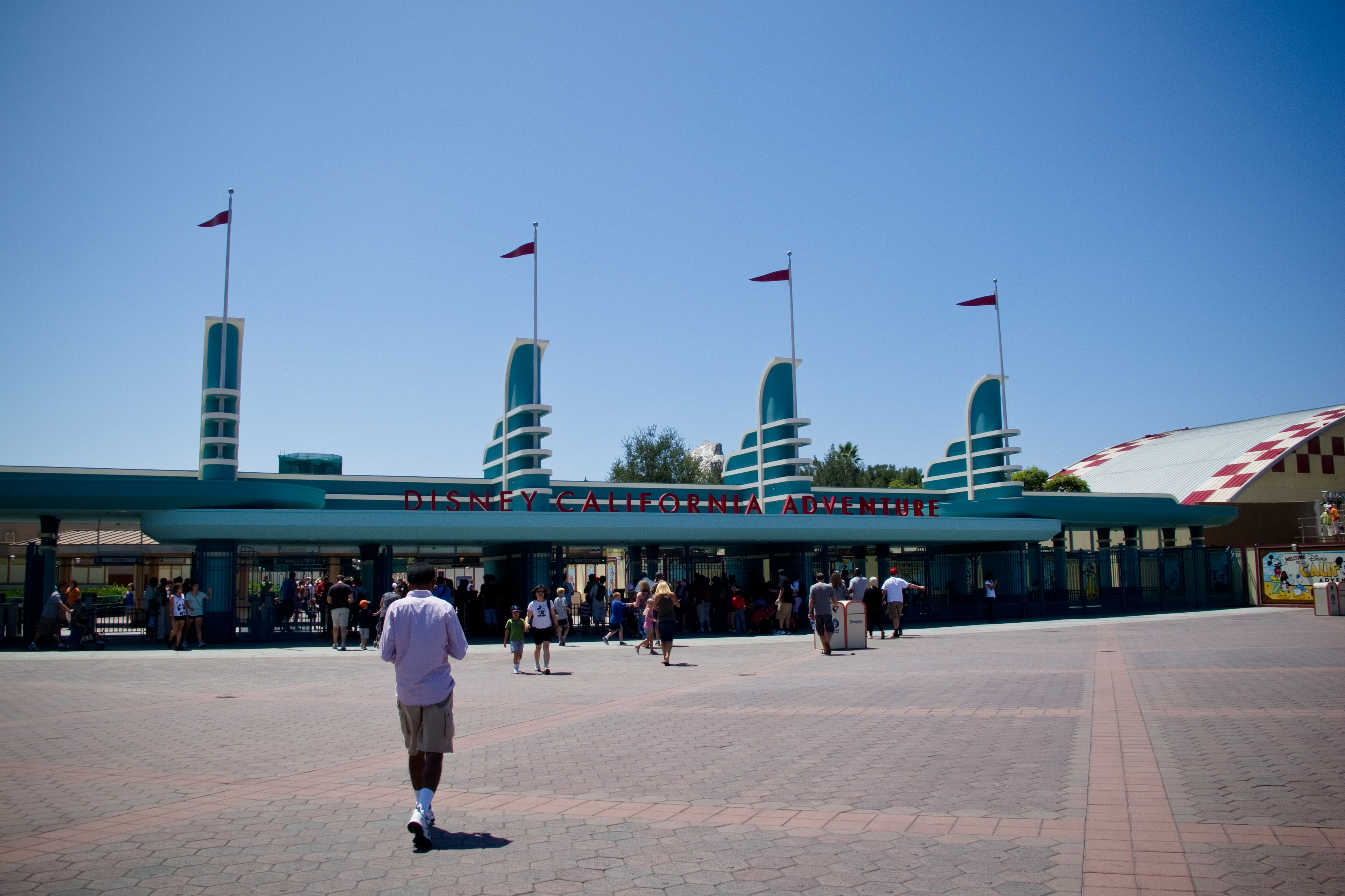 The new entrance to Disney California Adventure, modeled after the Pan-Pacific Auditorium.